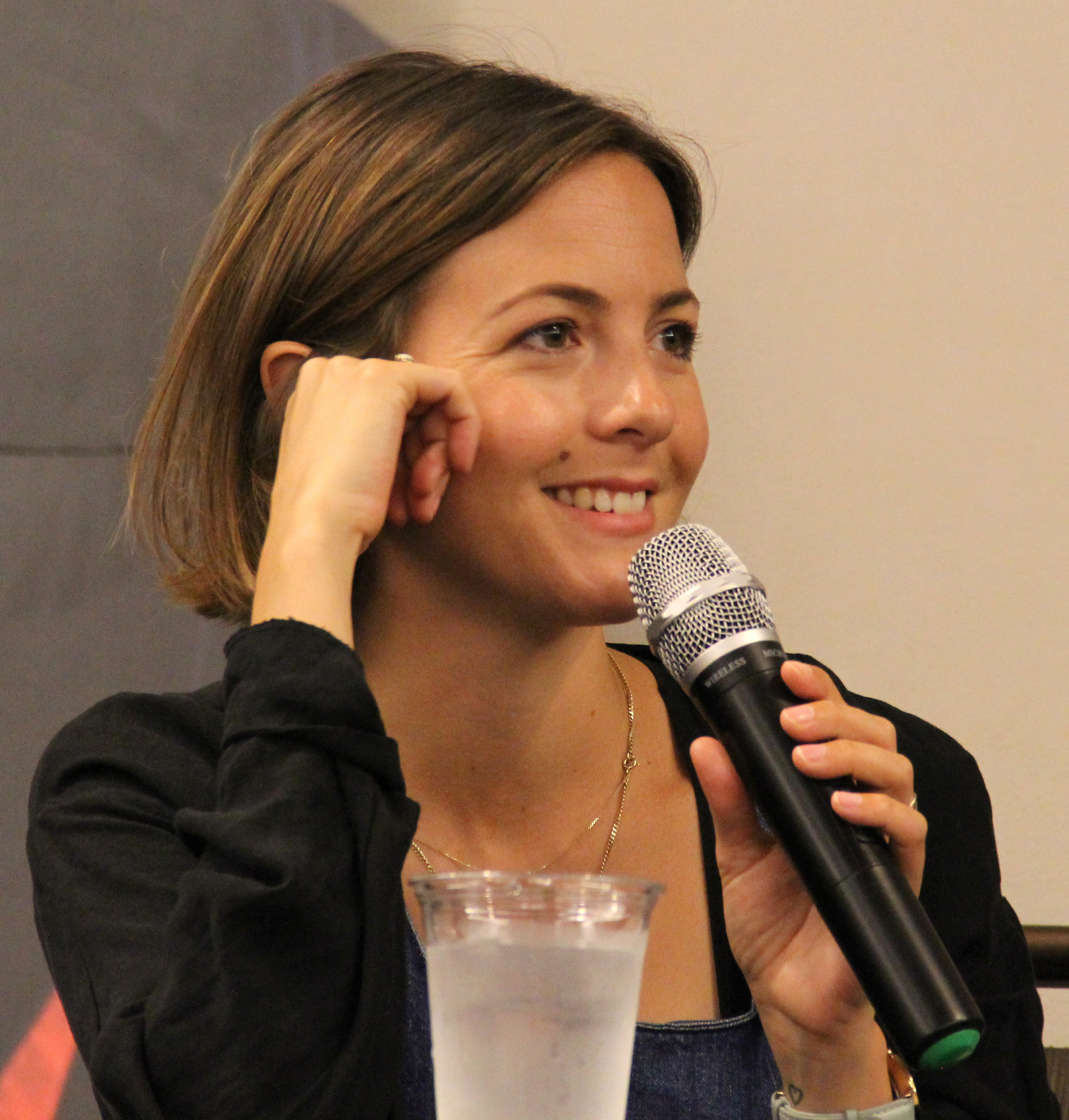 Catrin Stewart taken 2018-06-10 at Con Kasterborous in Huntsville, Alabama, USA